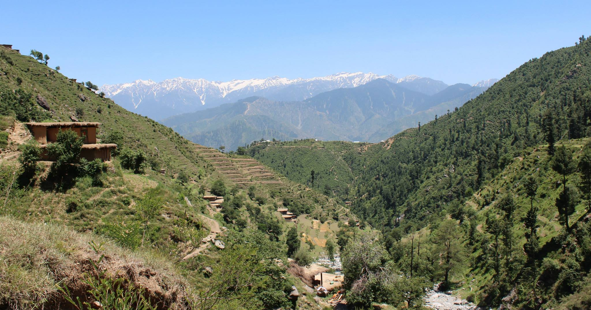 Tiraat view